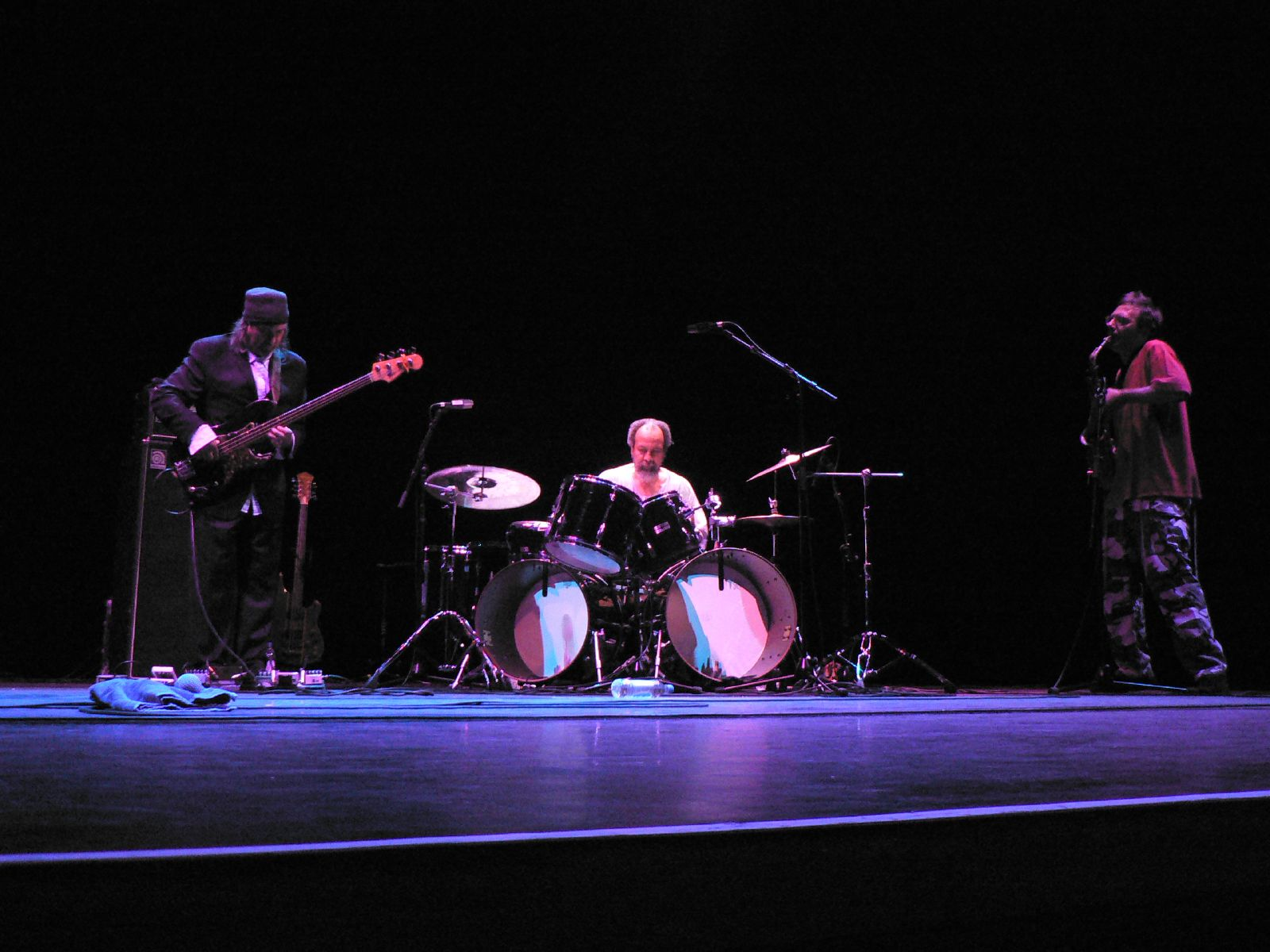 Zorn at the Barbican Tribute to Derek Bailey Bill Laswell